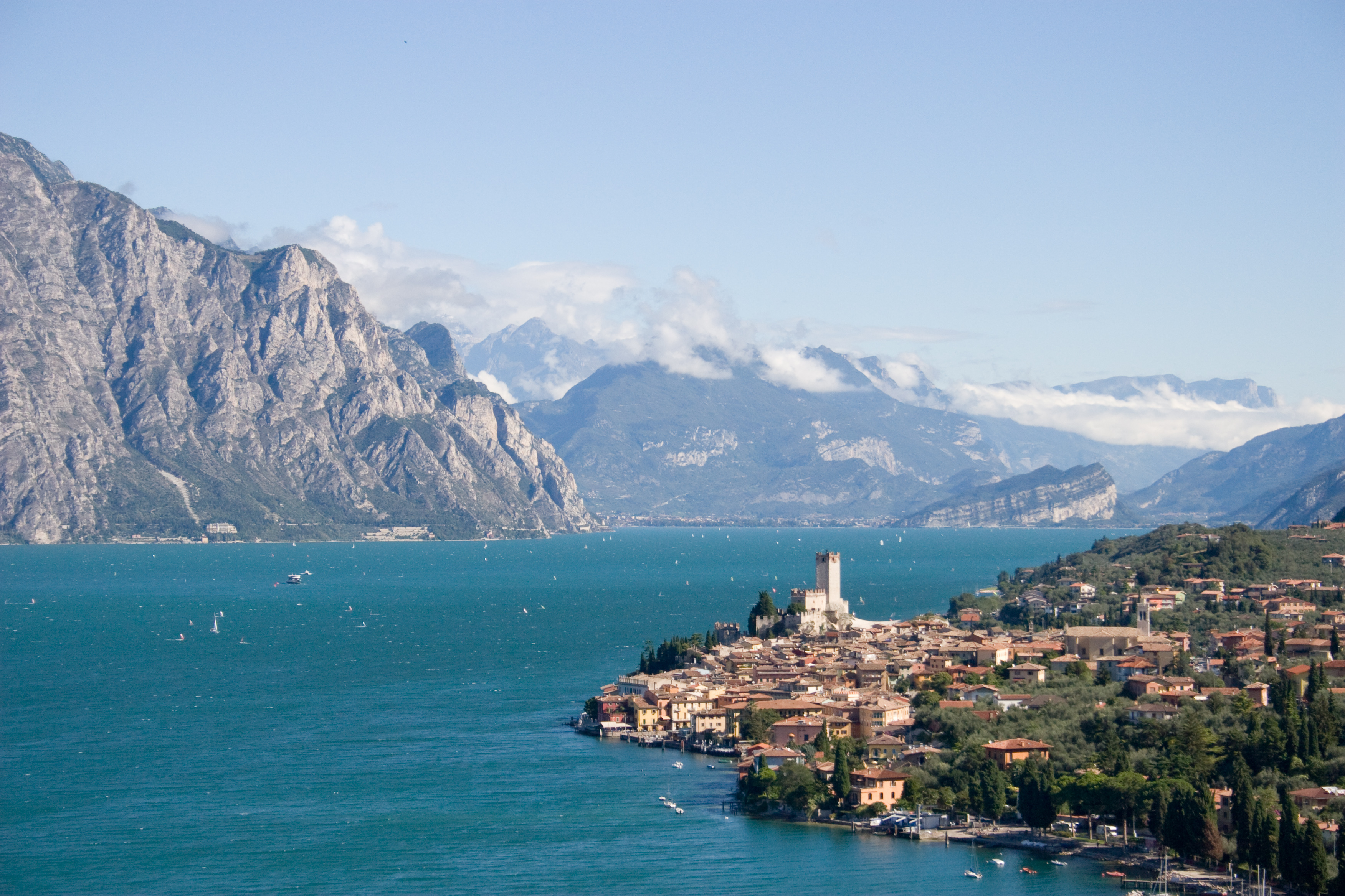 The old town of Malcesine with the Scaliger castle and the northern part of Lake Garda.